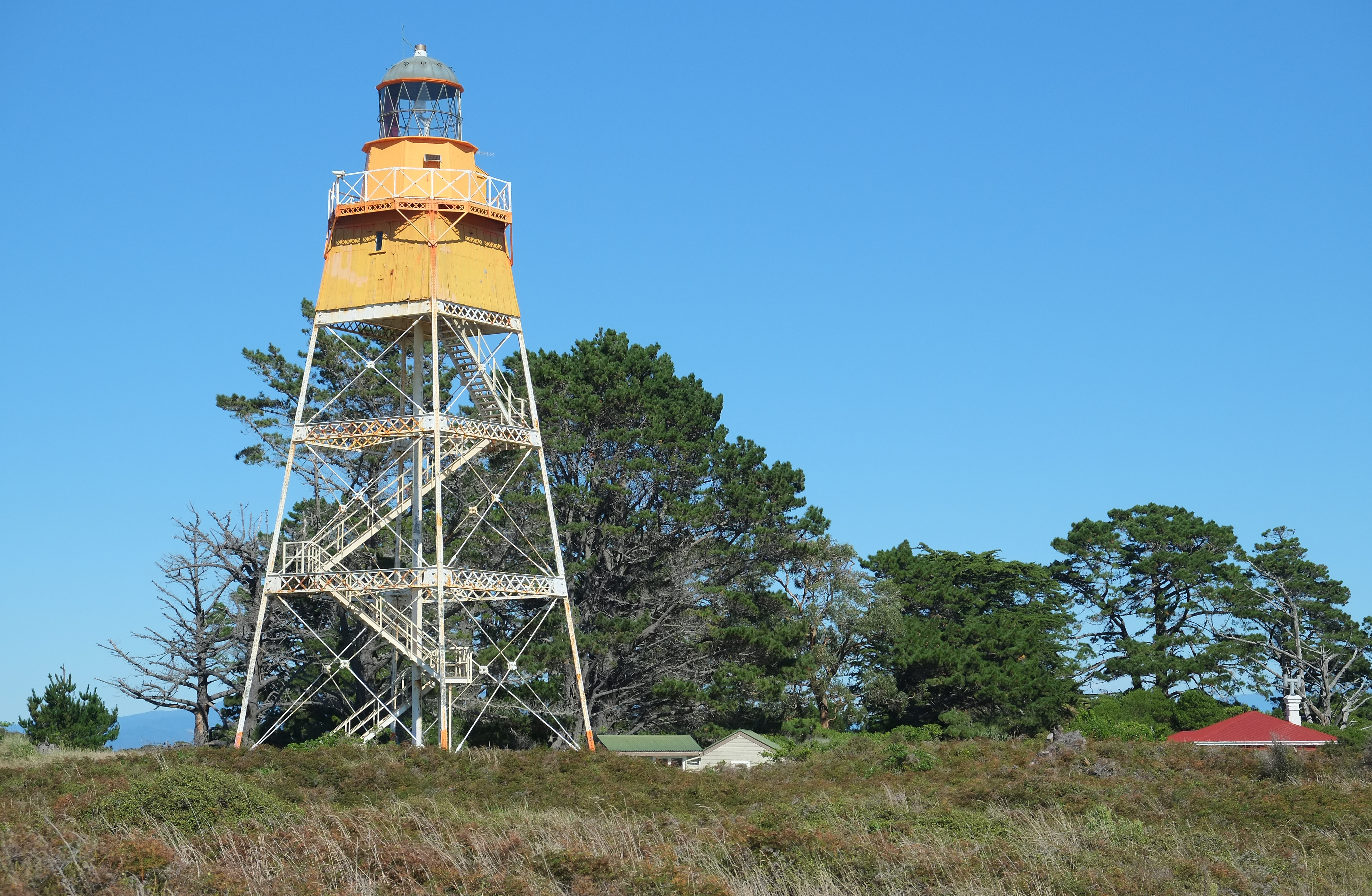 Farewell Spit lighthouse and accommodation houses